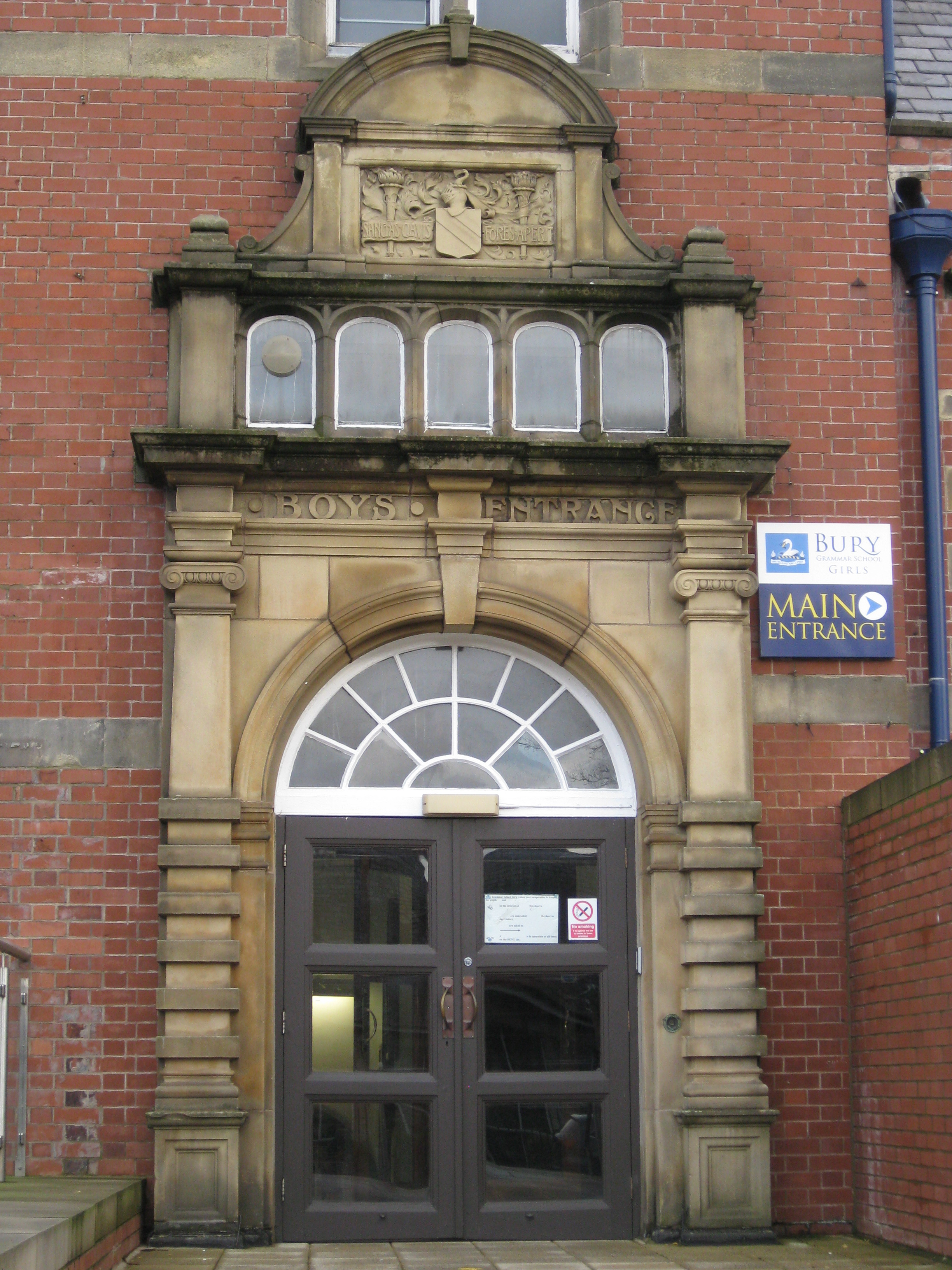 One of two main entries to Bury Grammar School Girls, showing one of the two separate entrances to the 1906 building where boys and girls shared the building but not classes.